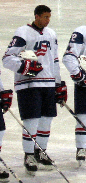 USA U18 Ice Hockey Team # 28 Seth Jones